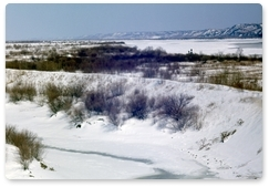 Landscape in Khingan Nature Reserve